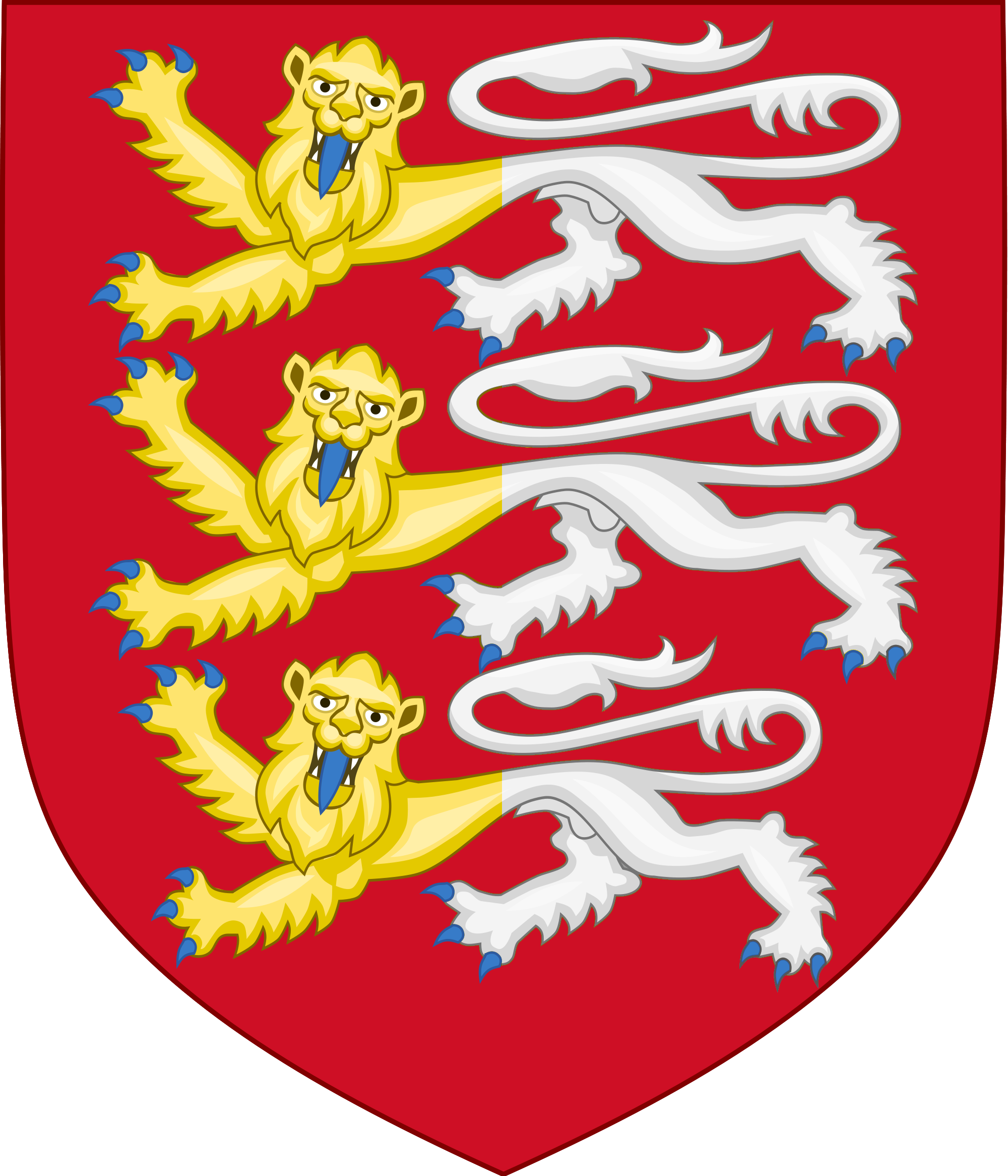 The arms of Faversham Town Council, based closely on the Royal Arms of England.